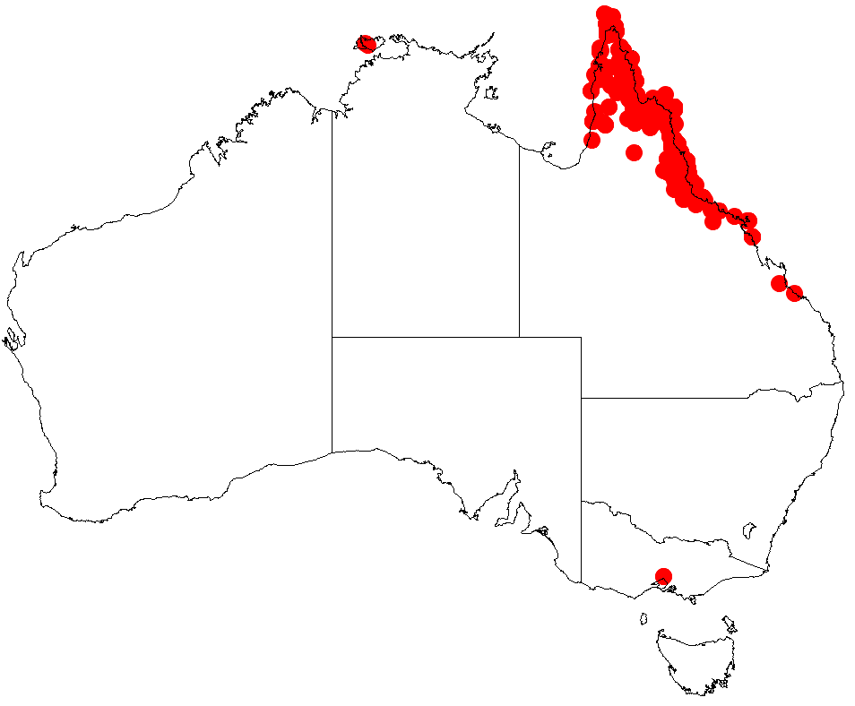 Acacia crassicarpa occurrence data from Australasian Virtual Herbarium downloaded from on December 8 2018